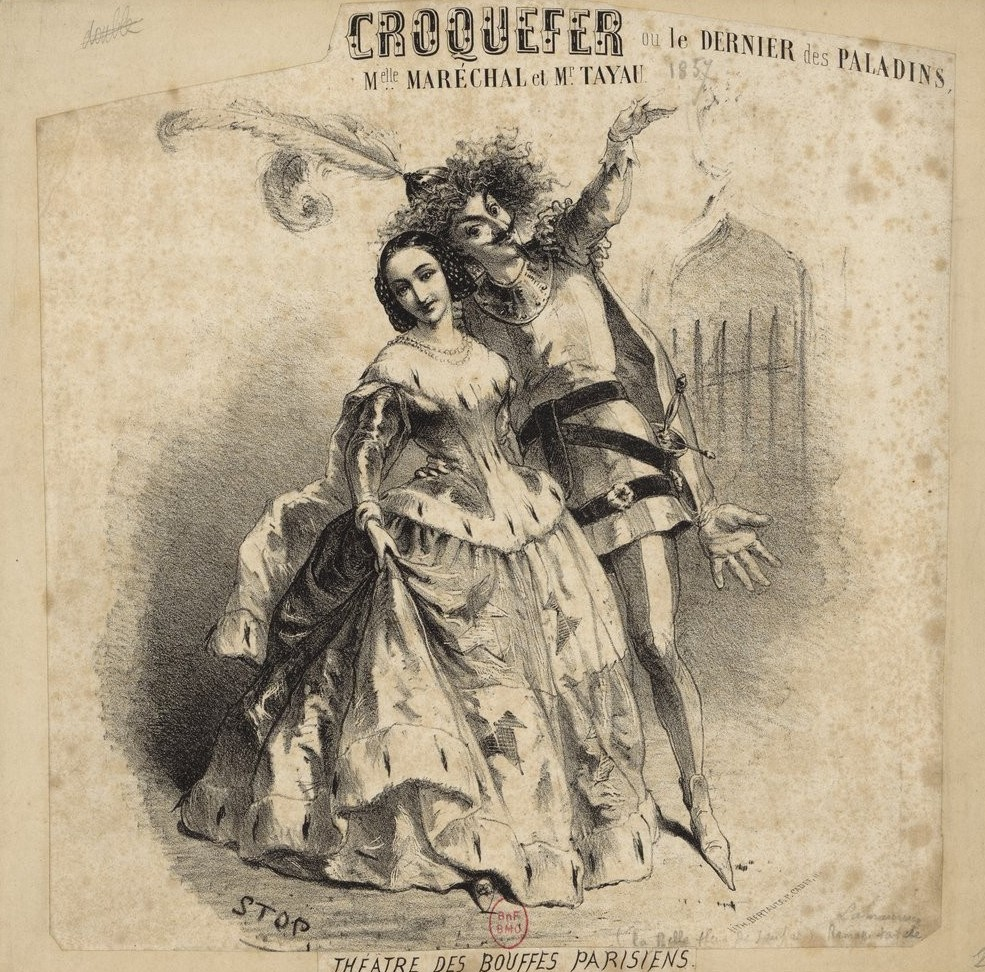 Croquefer, operetta by Jacques Offenbach; "Opéra" duet No 3, Henri Tayau as Ramasse-ta-Tête and Marie-Aurélie Mareschal as Fleur-du-Souffre, engraving by Stop, 1857